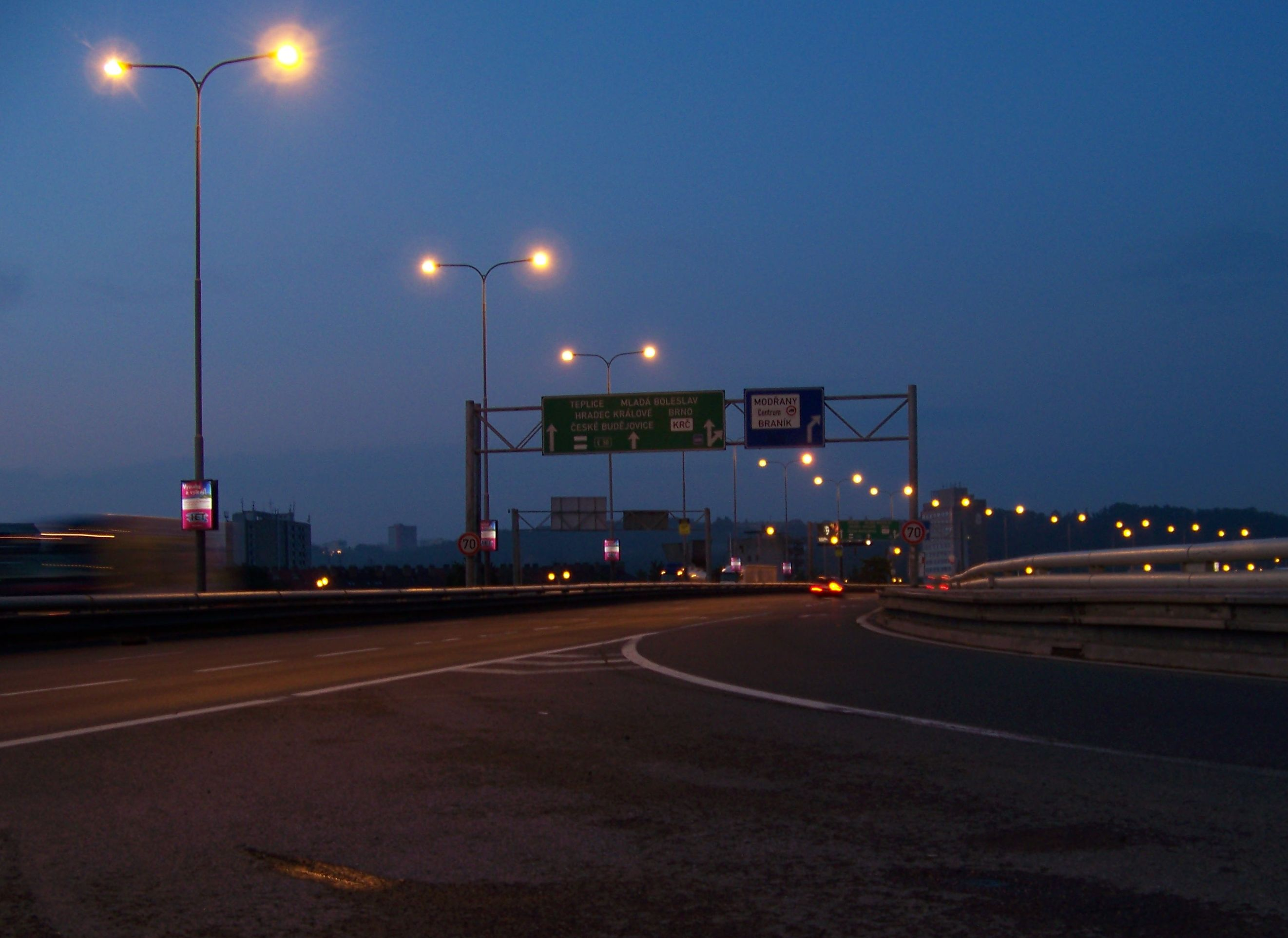 Hlubočepy, Prague, the Czech Republic. Barrandov Bridge. - Google Maps - Google Earth